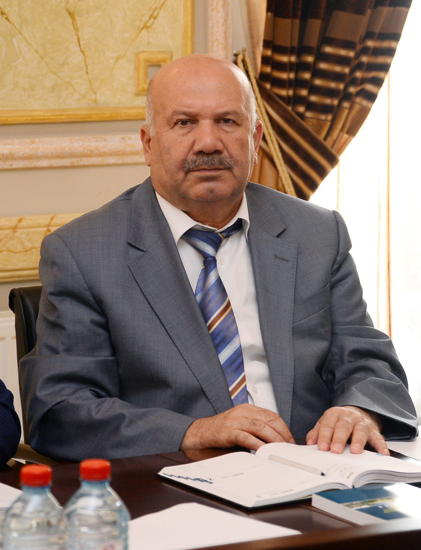 Seyyad Aran